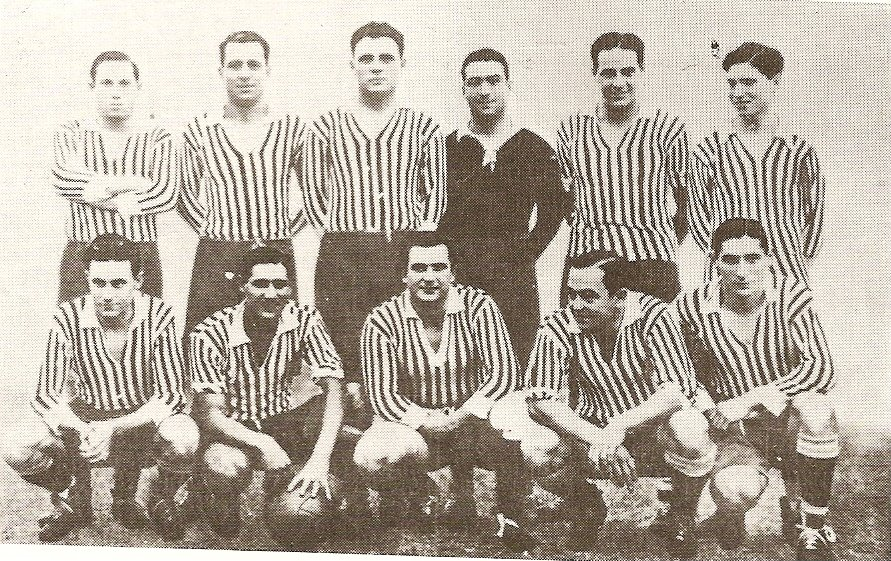 Sportivo Barracas team which won the amateur "Asociación Argentina de Football (AAF) championship in 1932.